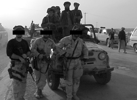 Mazar i Sharif, American Special Forces, November 2001